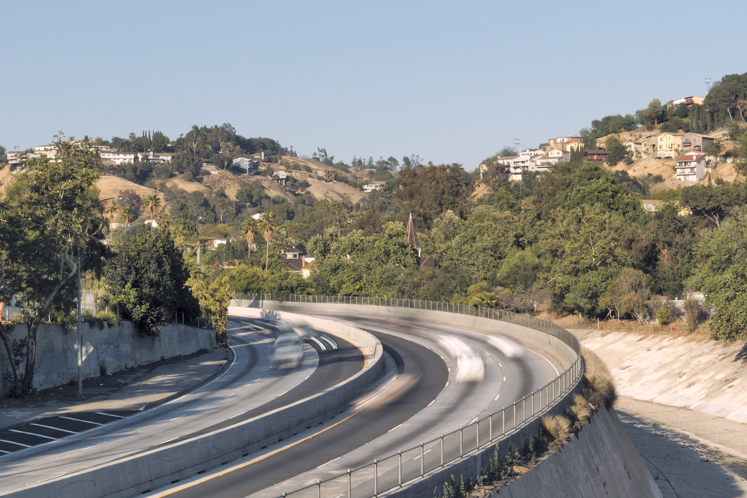 Montecito Heights viewed from the Pasadena Avenue bridge over the Arroyo Seco.